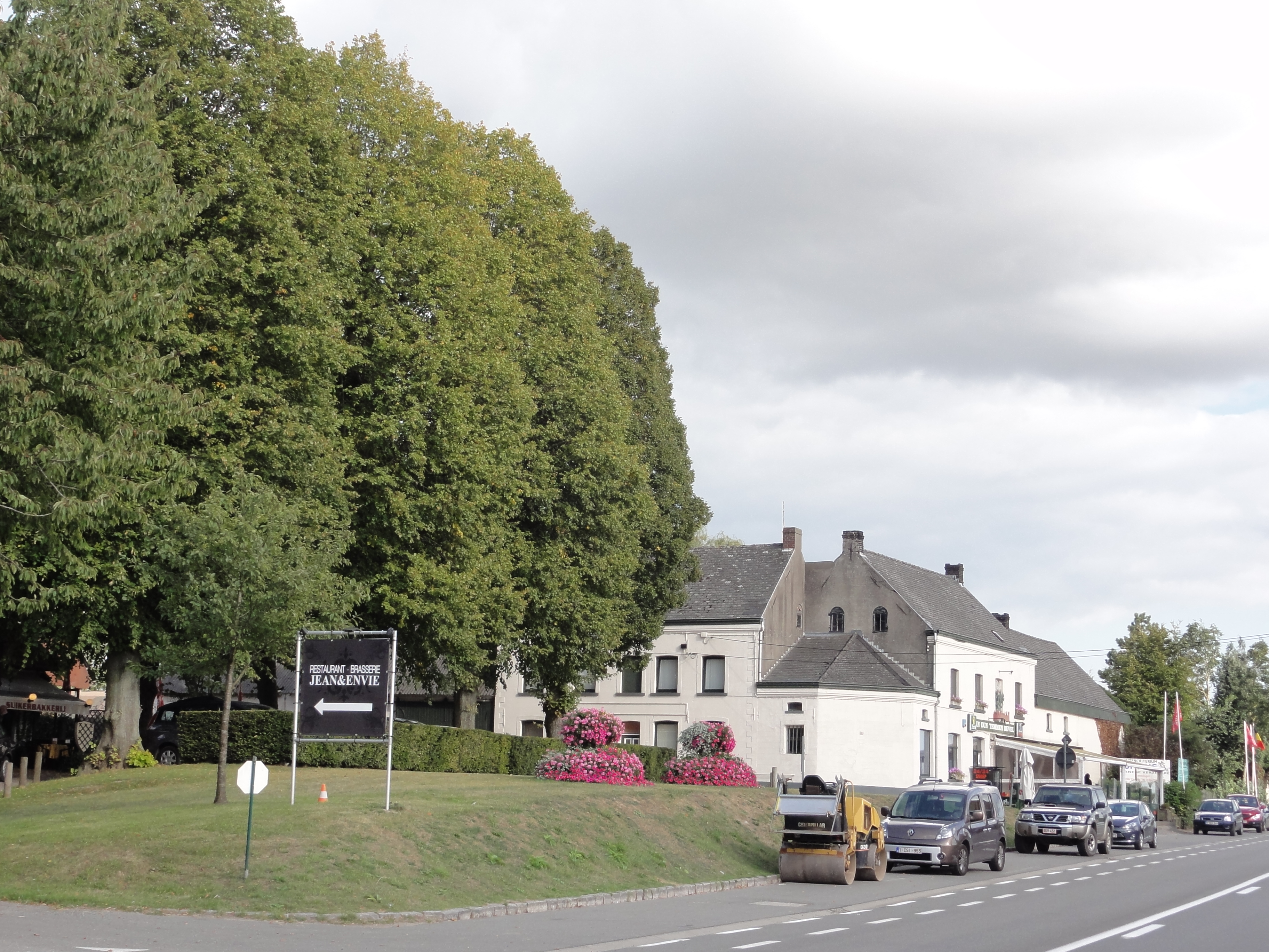 Hamlet of Kerselare in Edelare with cafés "In dun temmen duvel" and "In Sint Hermes". Edelare, Oudenaarde, East Flanders, Belgium